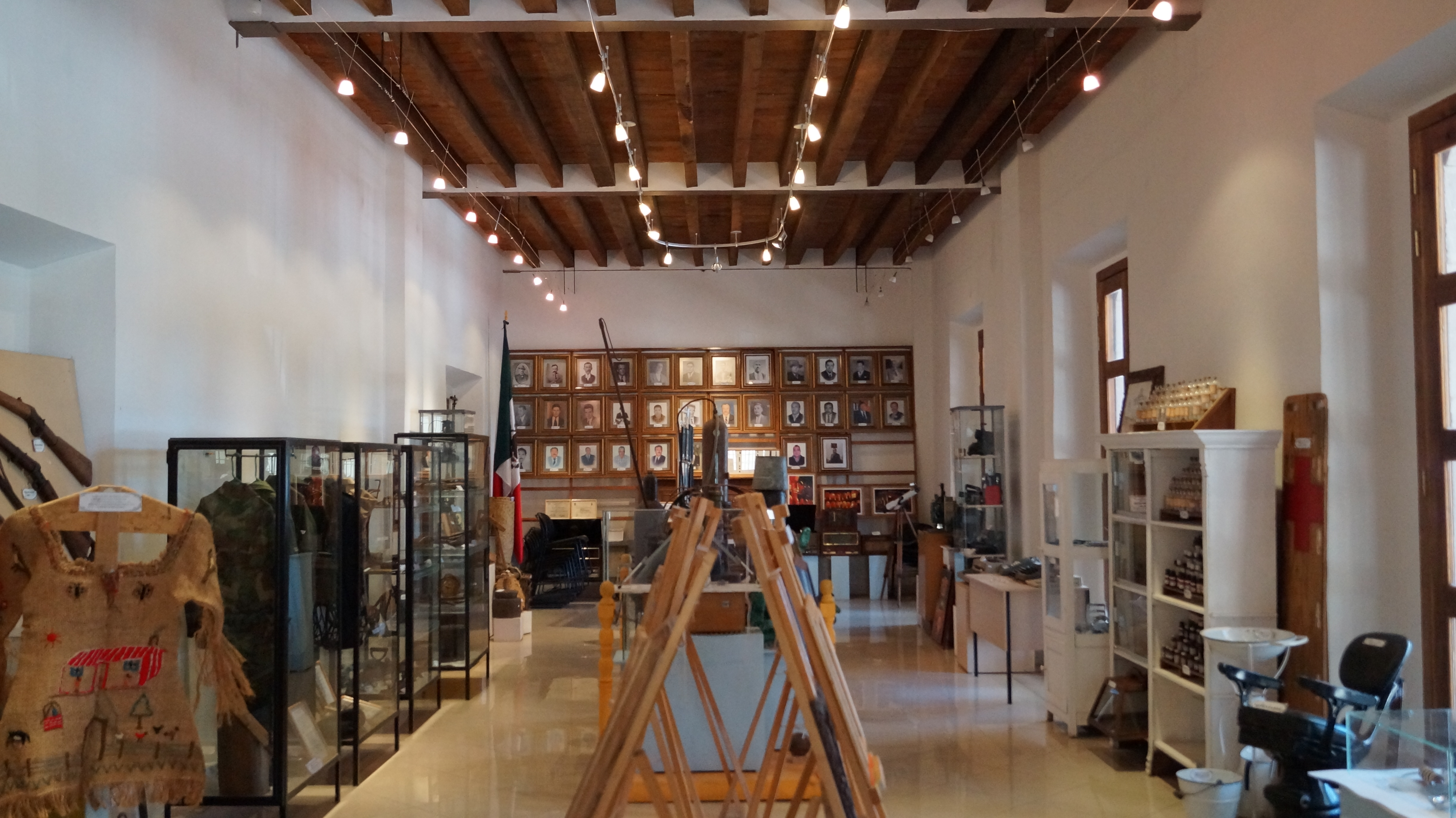 Museo ubicado en las instalaciones del Instituto municipal de cultura